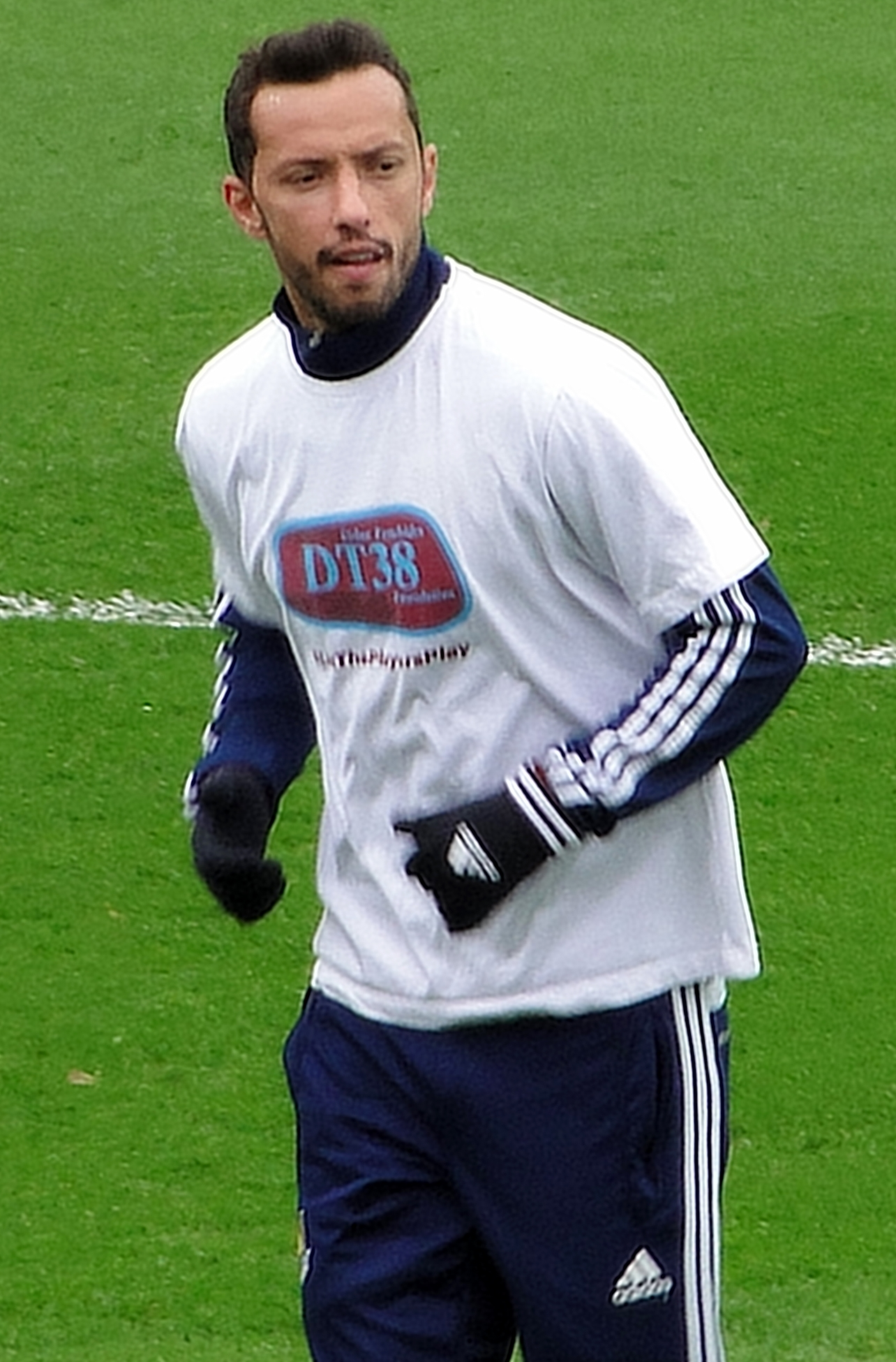 Footballer, Nenê warming-up for West Ham United before their game against Crystal Palace at the Boleyn Ground, 28 February 2015, his West Ham debut game.